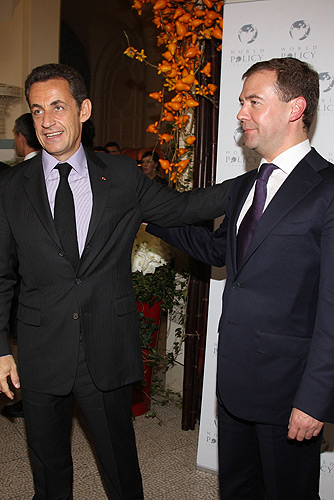 EVIAN. With President of France Nicholas Sarkozy.